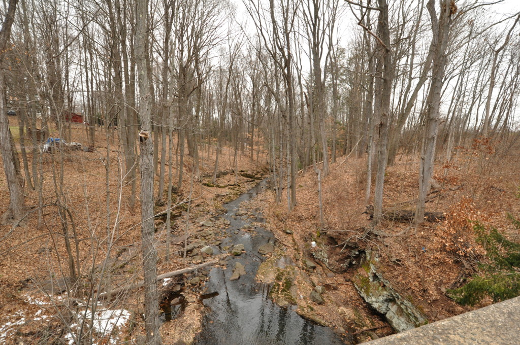 Simeon North Factory Site, Berlin, Connecticut. This is the site of an early pistol factory.